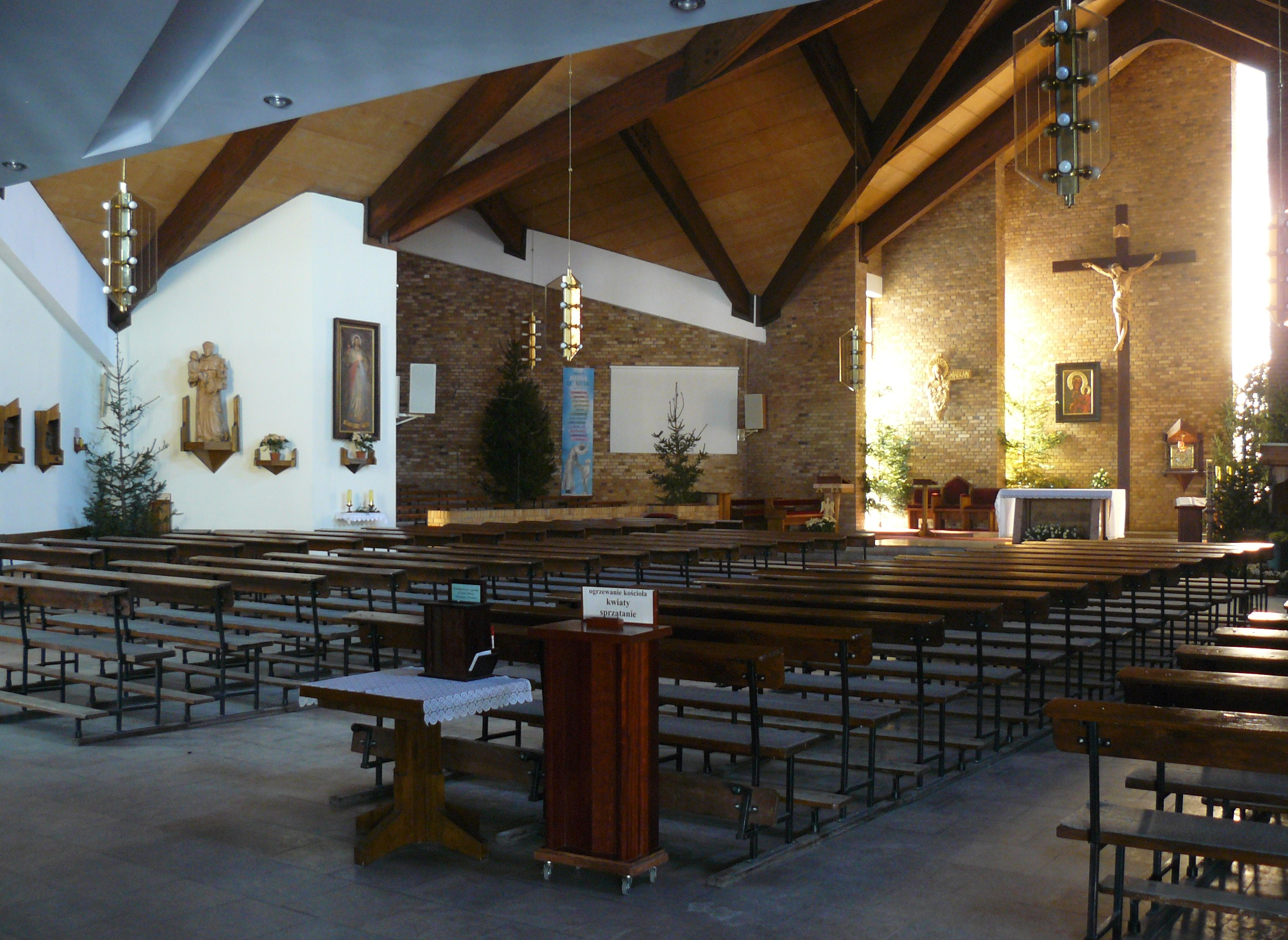 Saint Hedwig of Andechs church in Poznan, Cyniowa Street.